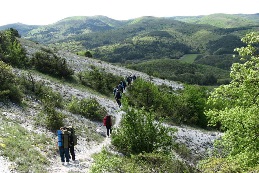 in a hike